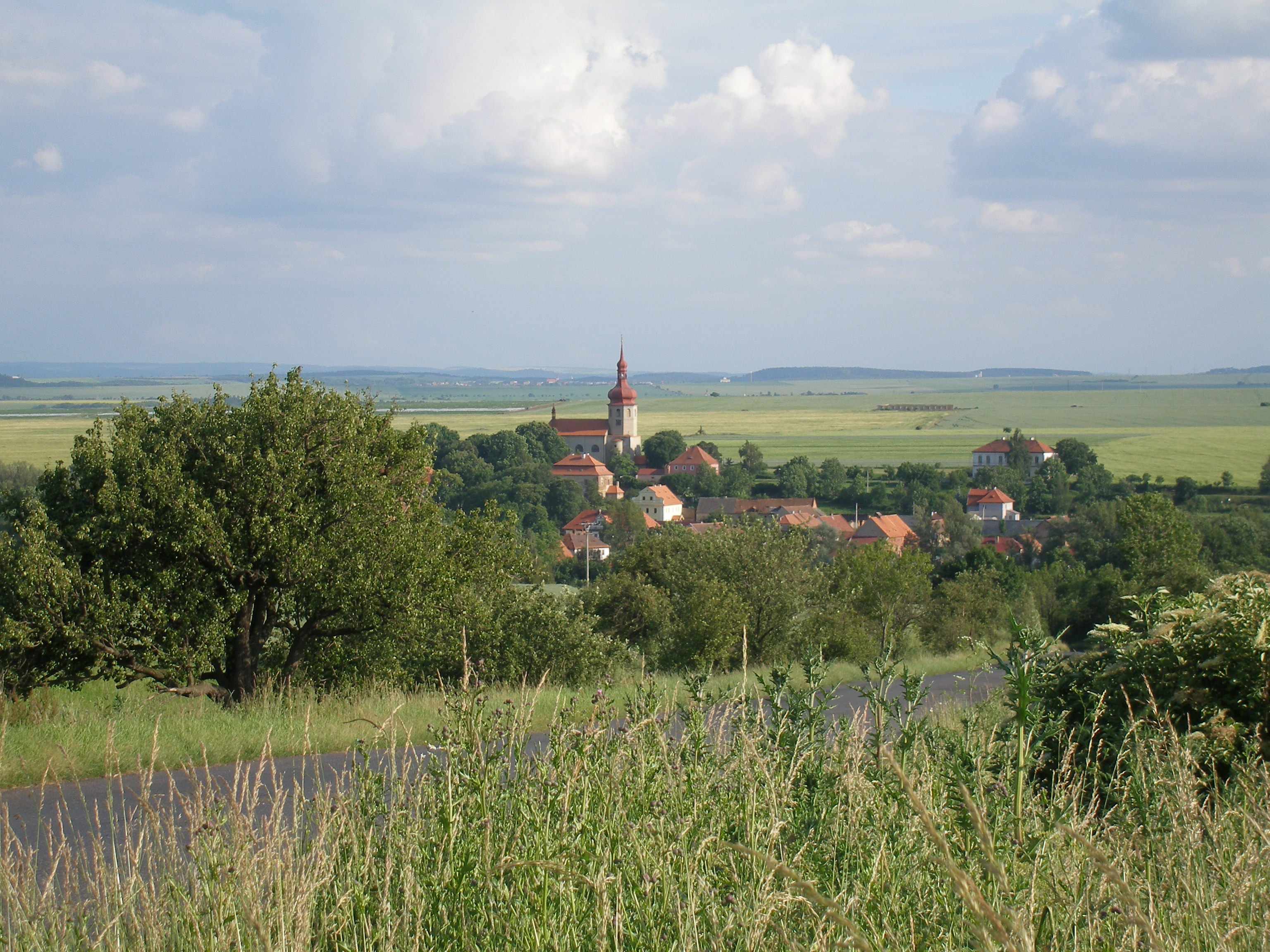 Libědice, the Nothern view